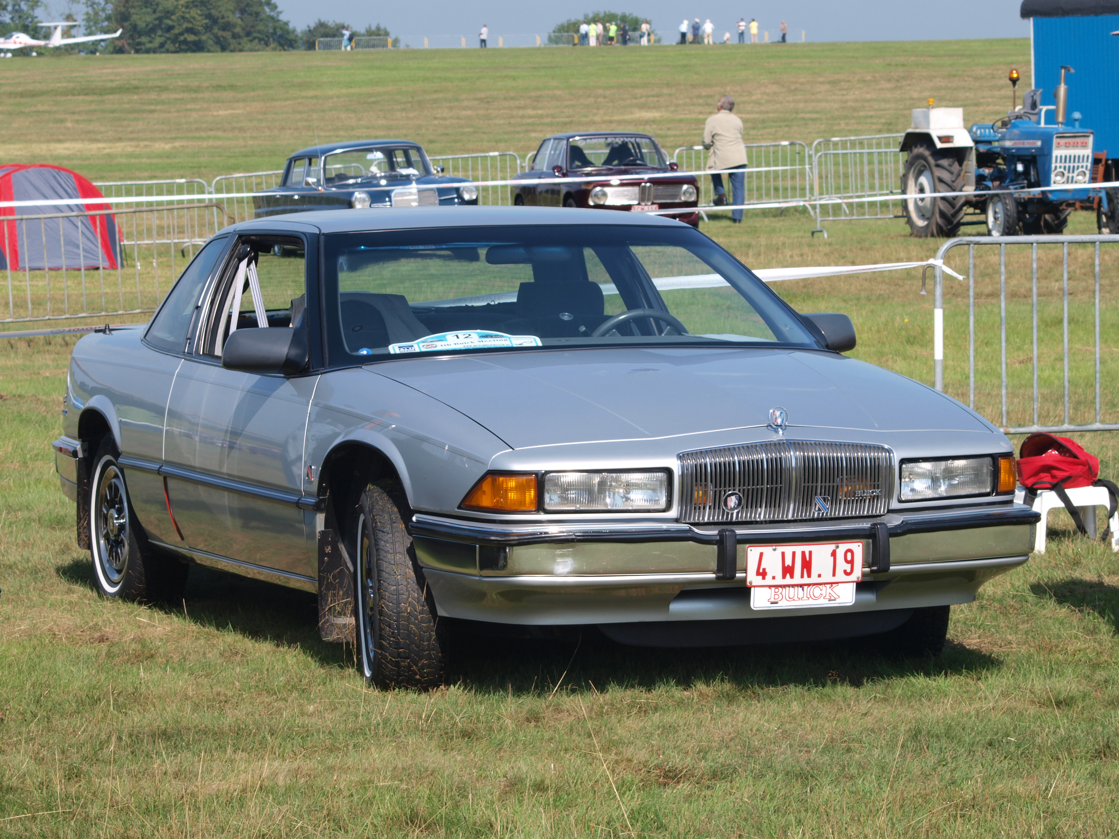 Photographed at the International Old Timer Fly-in 2010, Belgium